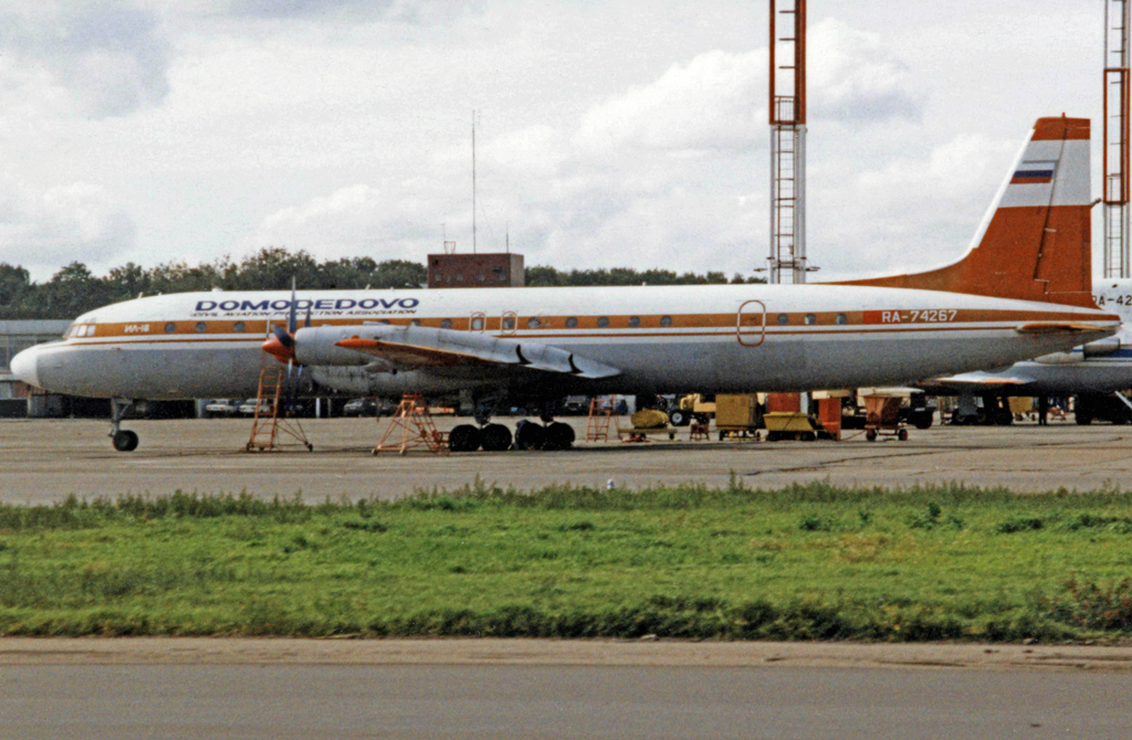 Ilyushin Il-18D RA-74267 of Domodedovo Civil Aviation Production Association at Domodedovo Airport, Moscow